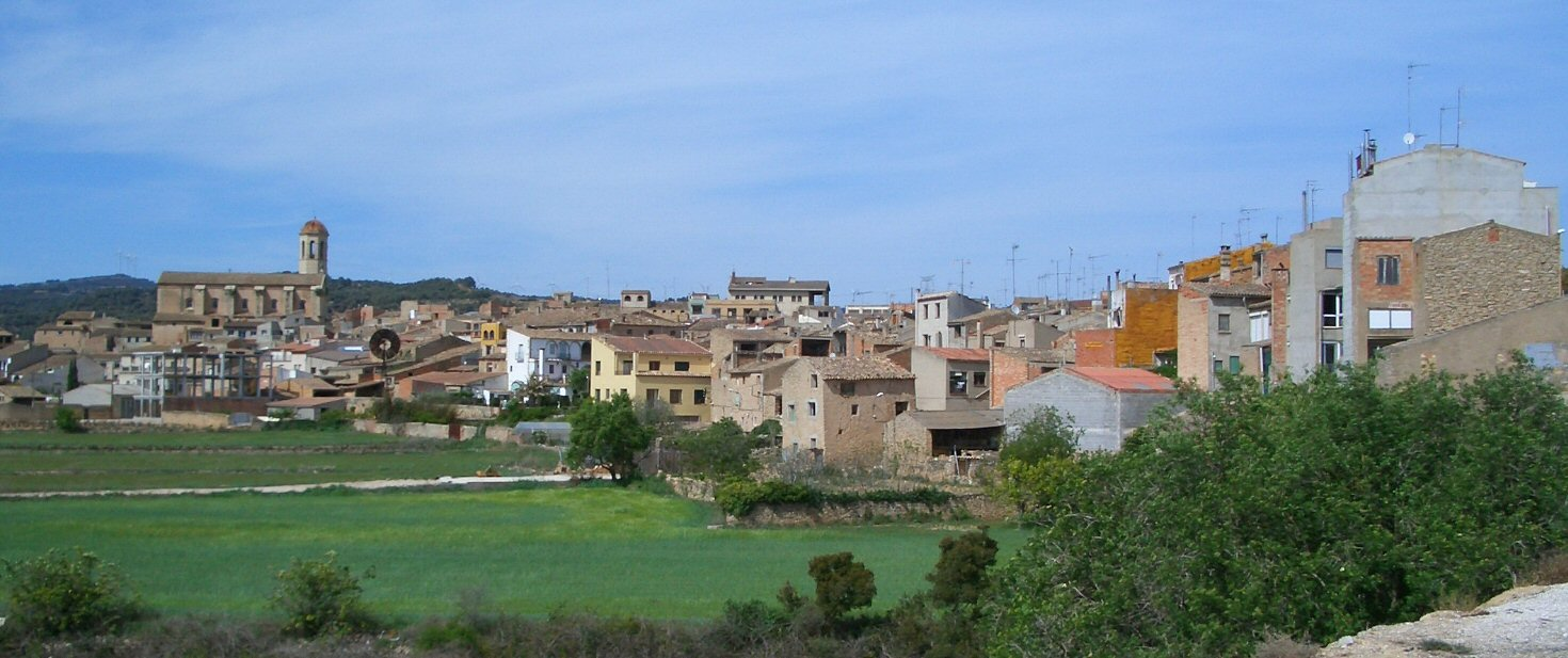 Picture of Blancafort, Catalonia, Europe